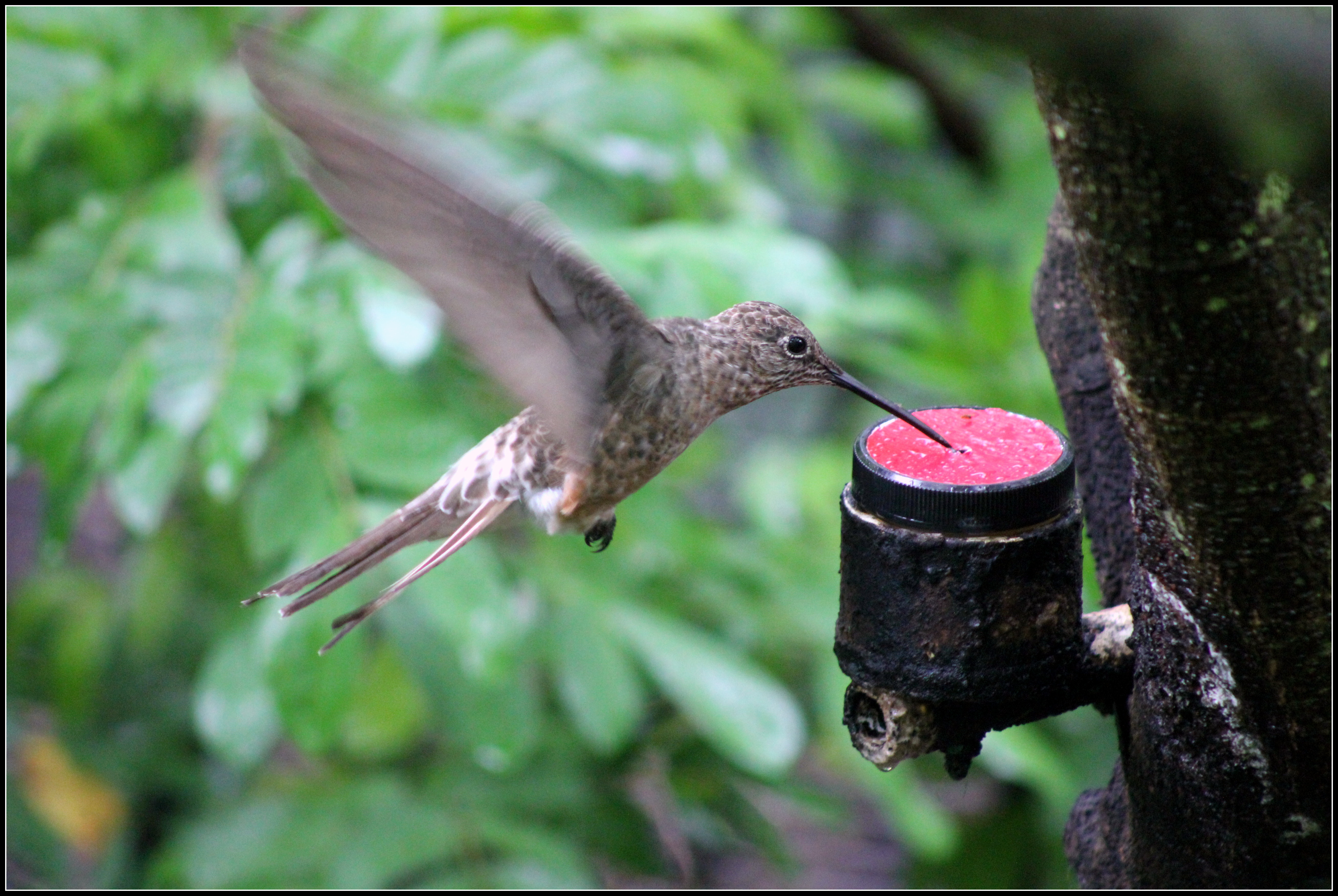 FIELD MARKS-Giant Hummingbirds tend to feed while perched rather than when hovering. Its size makes it unmistakable. Upperparts are dark green with a white rump. Underparts are brownish on the male and greyish on the female.